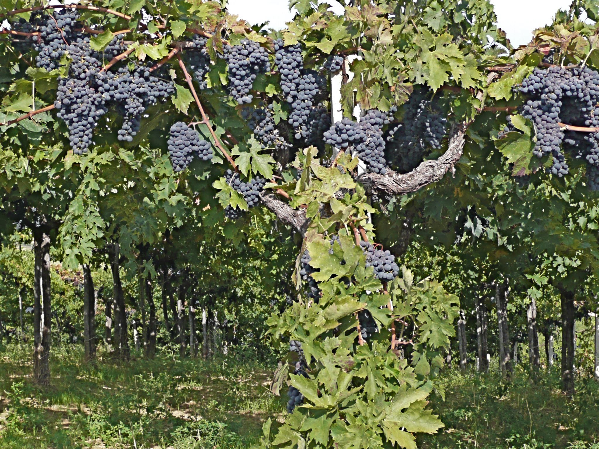 Montepulciano grapes in early October near harvest in the Italian wine region of Teramo, Abruzzi.